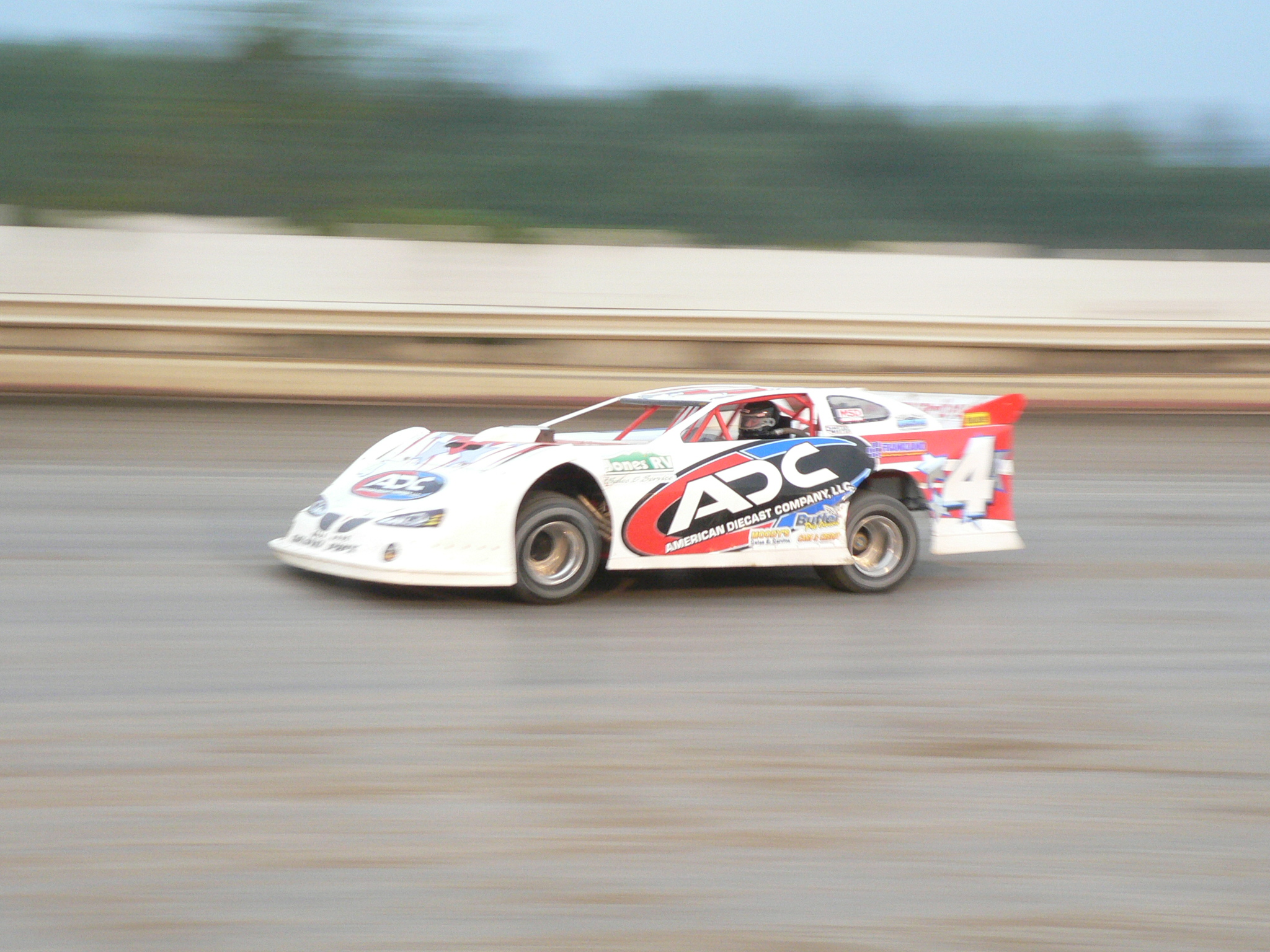 World of Outlaws Late Model Qualifier for the Pittsburgher 100. I love being in the infield. So much easier to get the good, clean shots. This isn't the clearist shot in the world.